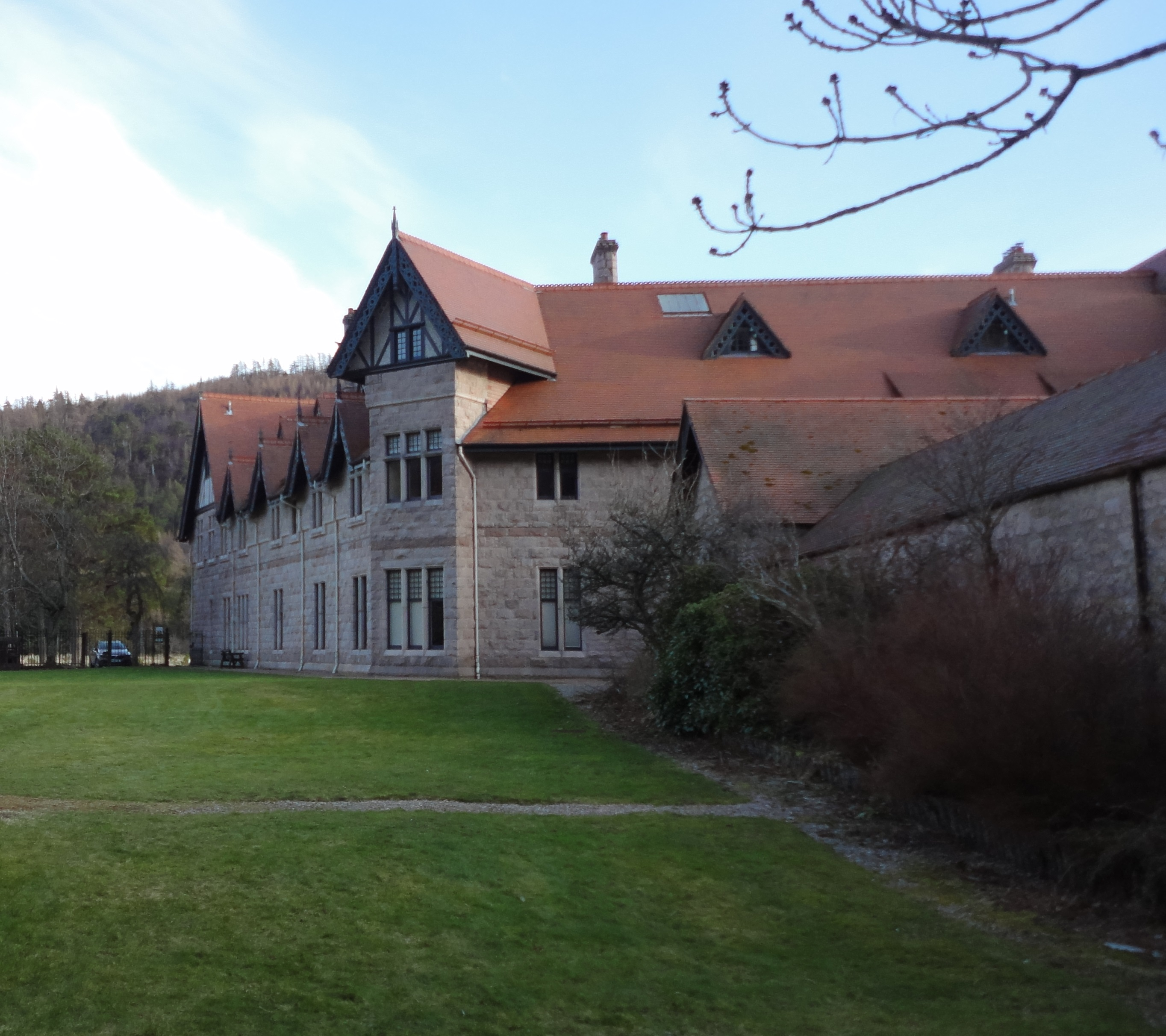 Detail of Mar Lodge (located on the Mar Lodge Estate, Braemar)